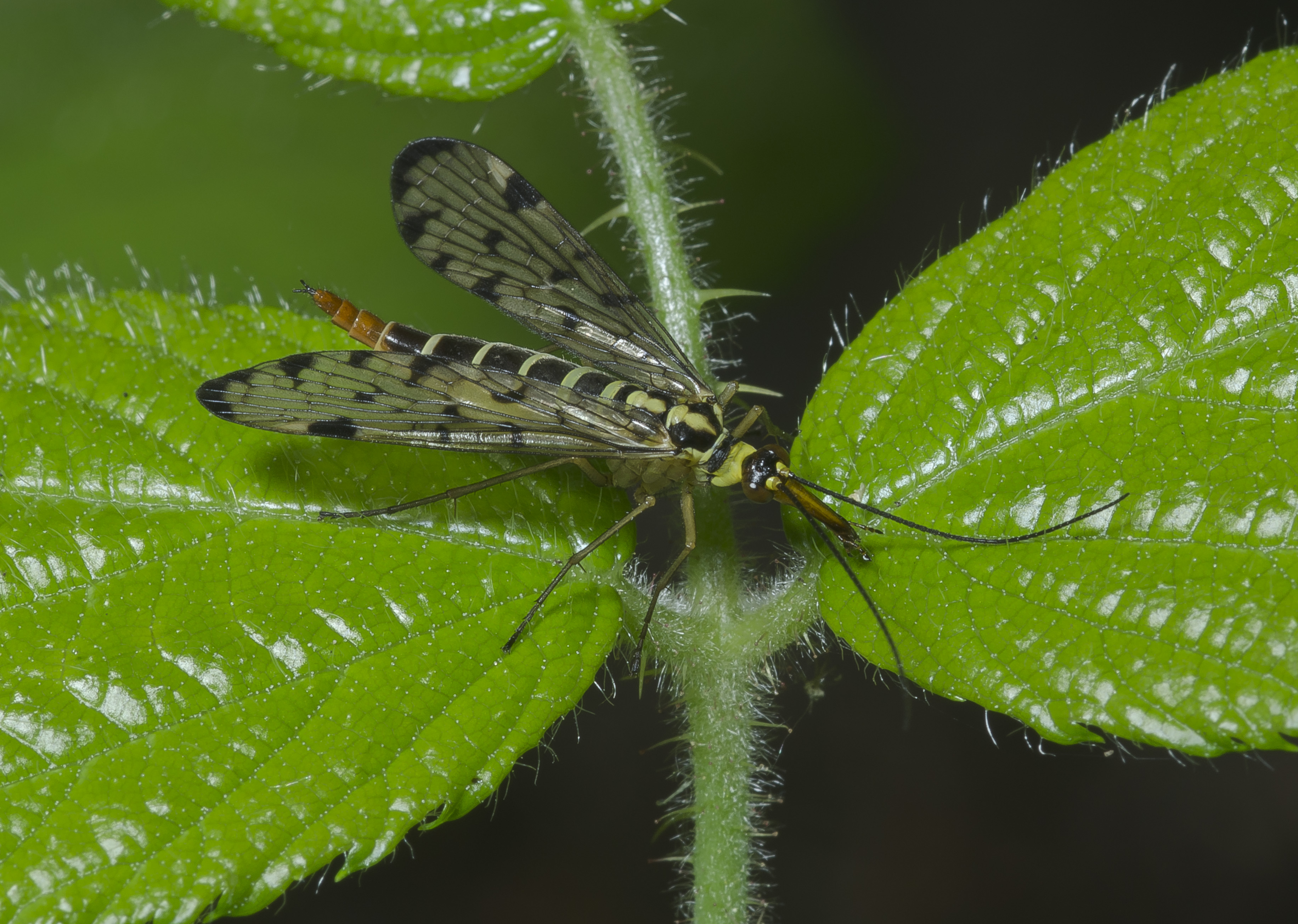 Scorpionfly (Panorpa germanica), female, picture take near Stuttgart, Germany